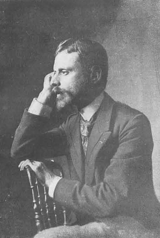 José Júlio Sousa Pinto in Revista Moderna (1889)